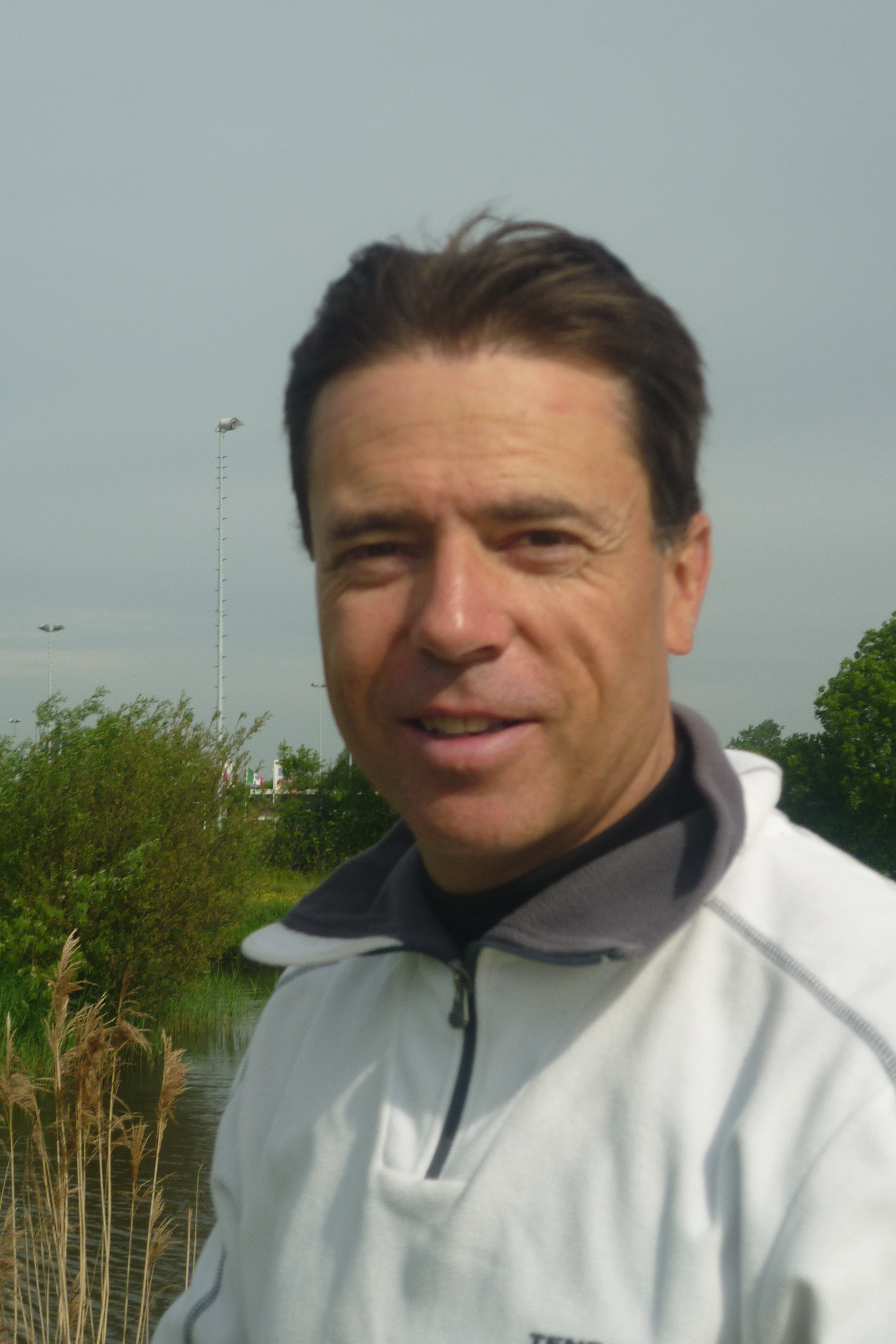 Stephane Lovey at Delfland Invitational